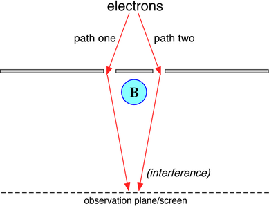 illustration of interference experiment for Aharonov-Bohm effect (Created by Steven G. Johnson.)